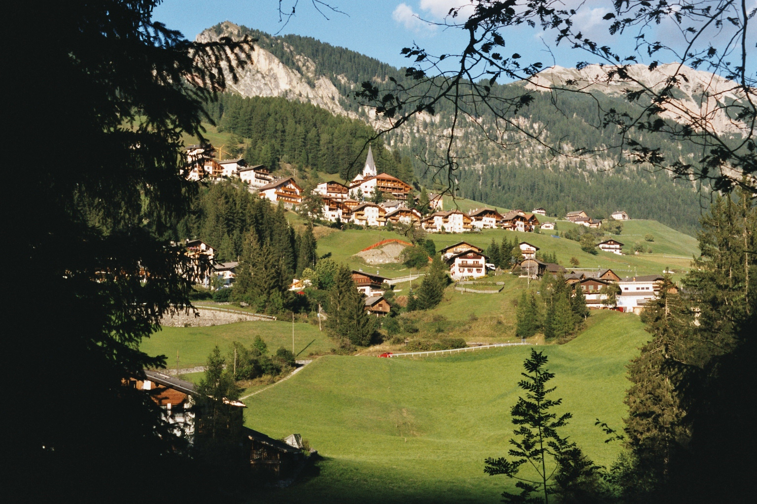 Kreuzspitze, ladinian Crusz da Rit, on the left in picture, to the right Pares mountain. Kreuzspitze is on the border between Wengen and Enneberg, in the Dolomites in South Tyrol in Italy. In the foreground Wengen main village. Picture taken around 2001/2002.